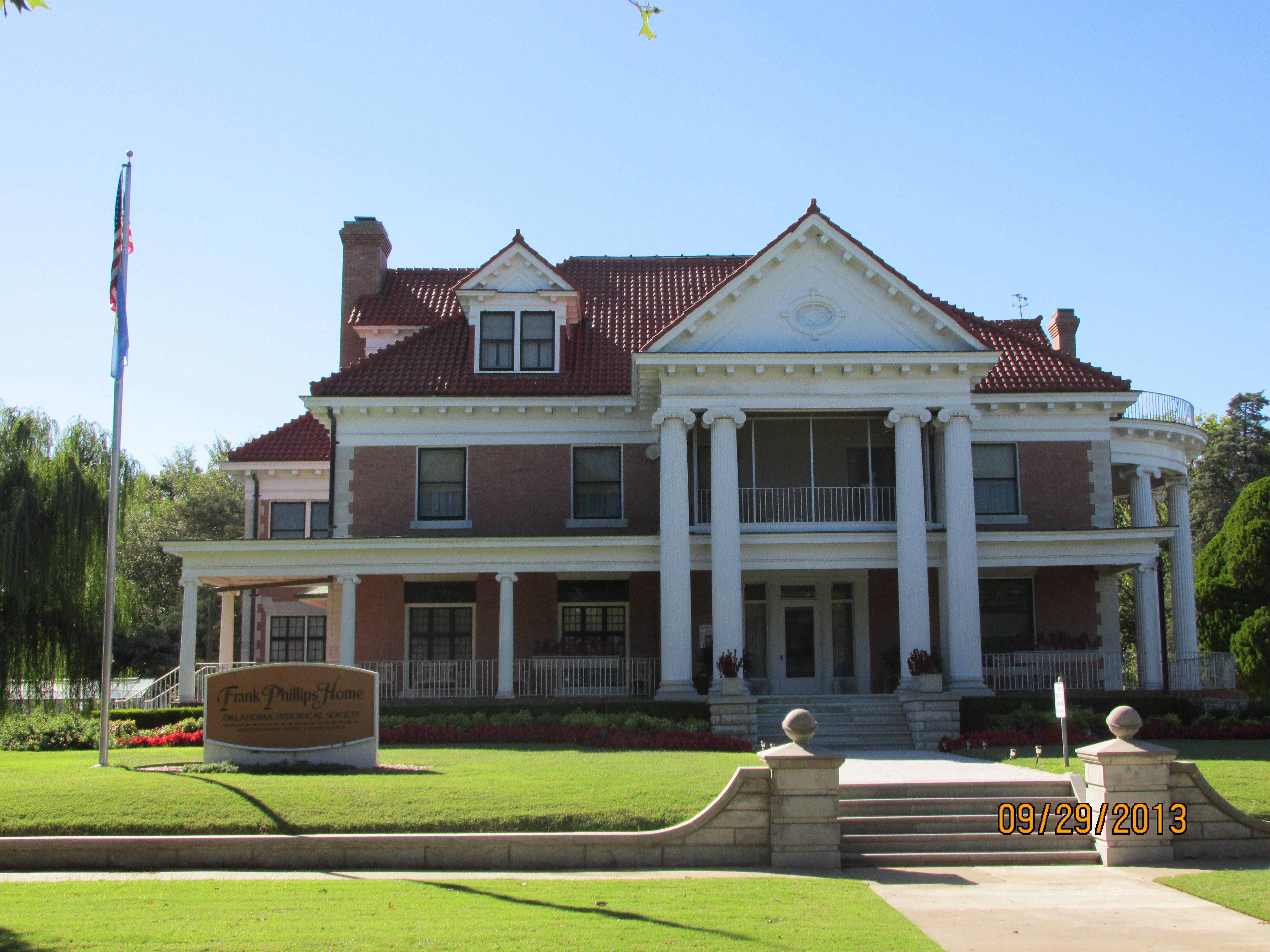 Frank and Jane Phillips House — historic Victorian era "oil mansion" at 1107 SE. Cherokee Avenue, in Bartlesville, Oklahoma. On the National Register of Historic Places in Washington County, Oklahoma.